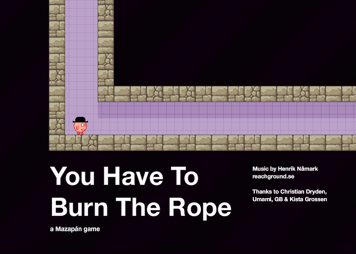 The title screen of You Have to Burn the Rope.